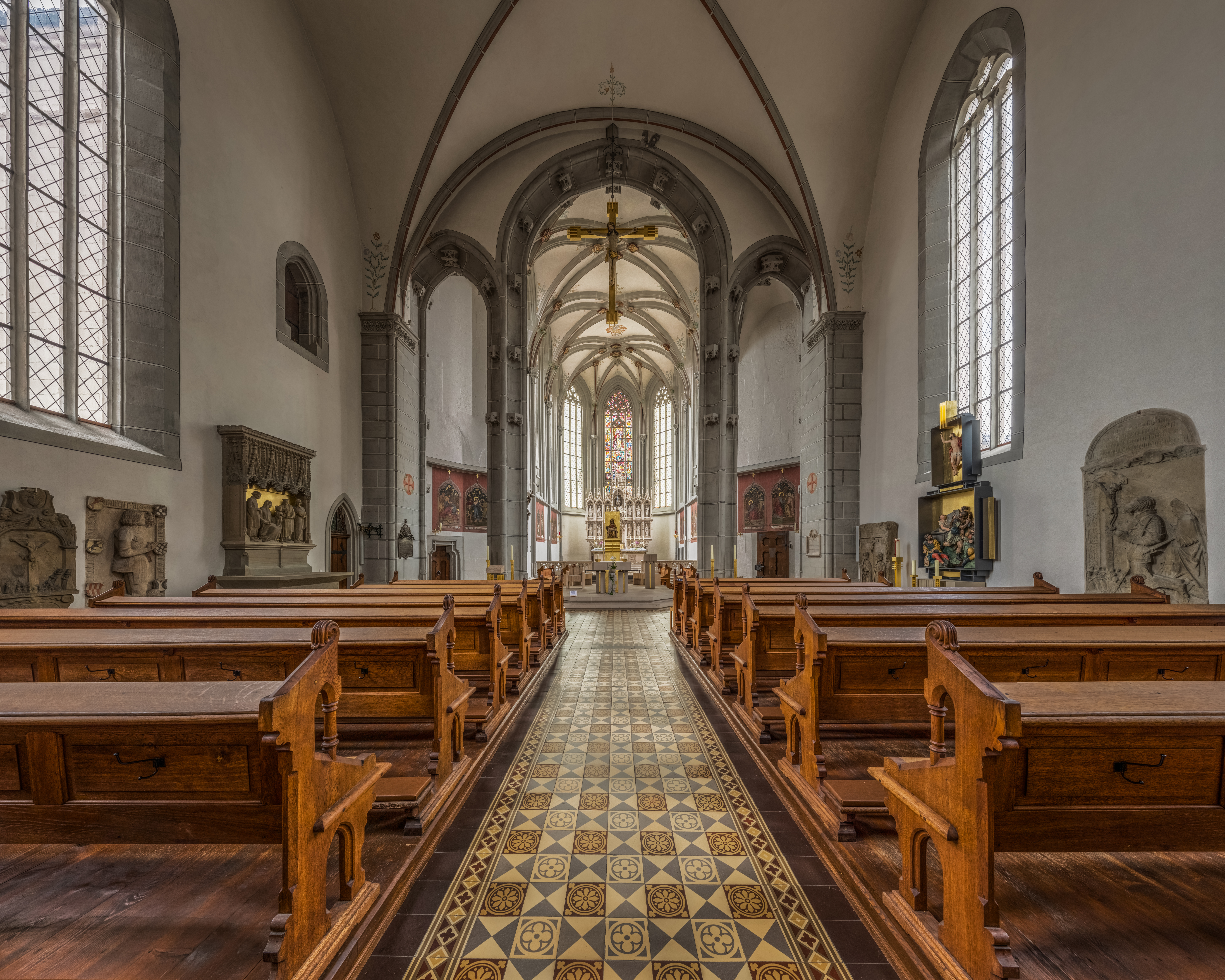 The nave of the Ritterkapelle, a late gothic chapel in Haßfurt NOTE: This image is a panorama consisting of 3x 6 frames that were merged or stitched in Hugin & Photomatix Pro. As a result, this image necessarily underwent some form of digital manipulation. These manipulations may include blending, blurring, cloning, and colour and perspective adjustments. As a result of these adjustments, the image content may be slightly different from reality at the points where multiple images were combined. This manipulation is often required due to lens, perspective, and parallax distortions.